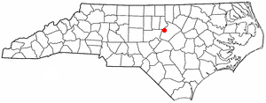 Category:North Carolina Dot Maps